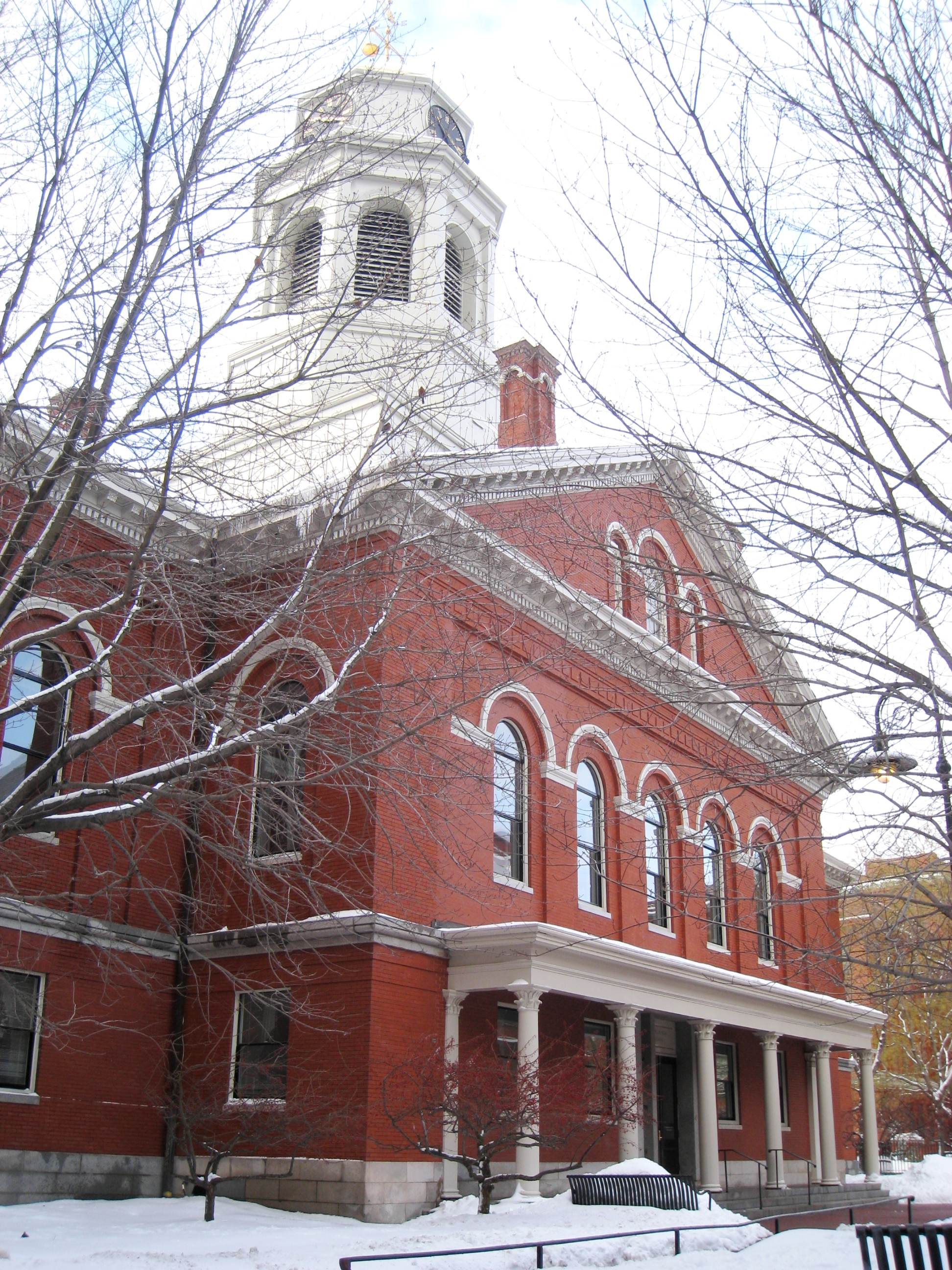 The old Middlesex County Courthouse, Bulfinch Place, Cambridge, Massachusetts - oblique view. Original architect Charles Bulfinch (1814-1816); enlarged and refaced by Ammi B. Young (1848).